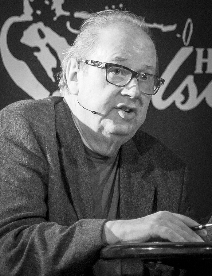 The recording of radio program "Studio Sokrates" at Herr Nielsen. The event took place on 10. September 2016 in Oslo.Lineup:Lars Nilsen (host)Knut Borge (contributor)Siv Dokmo (contributor)Per Husby Trio:Per Husby (piano)Trygve Seim (saxophone)Anne Lunde (vocal)